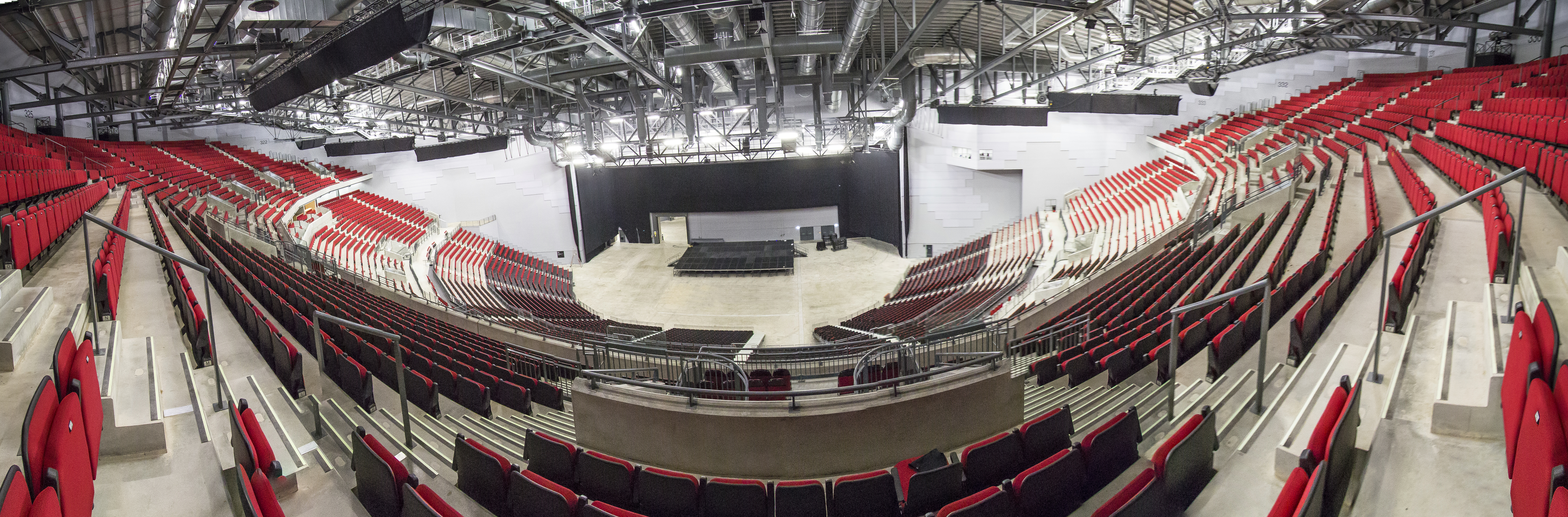 Leeds First Direct Arena. Taken by Flickr user:Carl Milner on Friday the 30th August 2013.